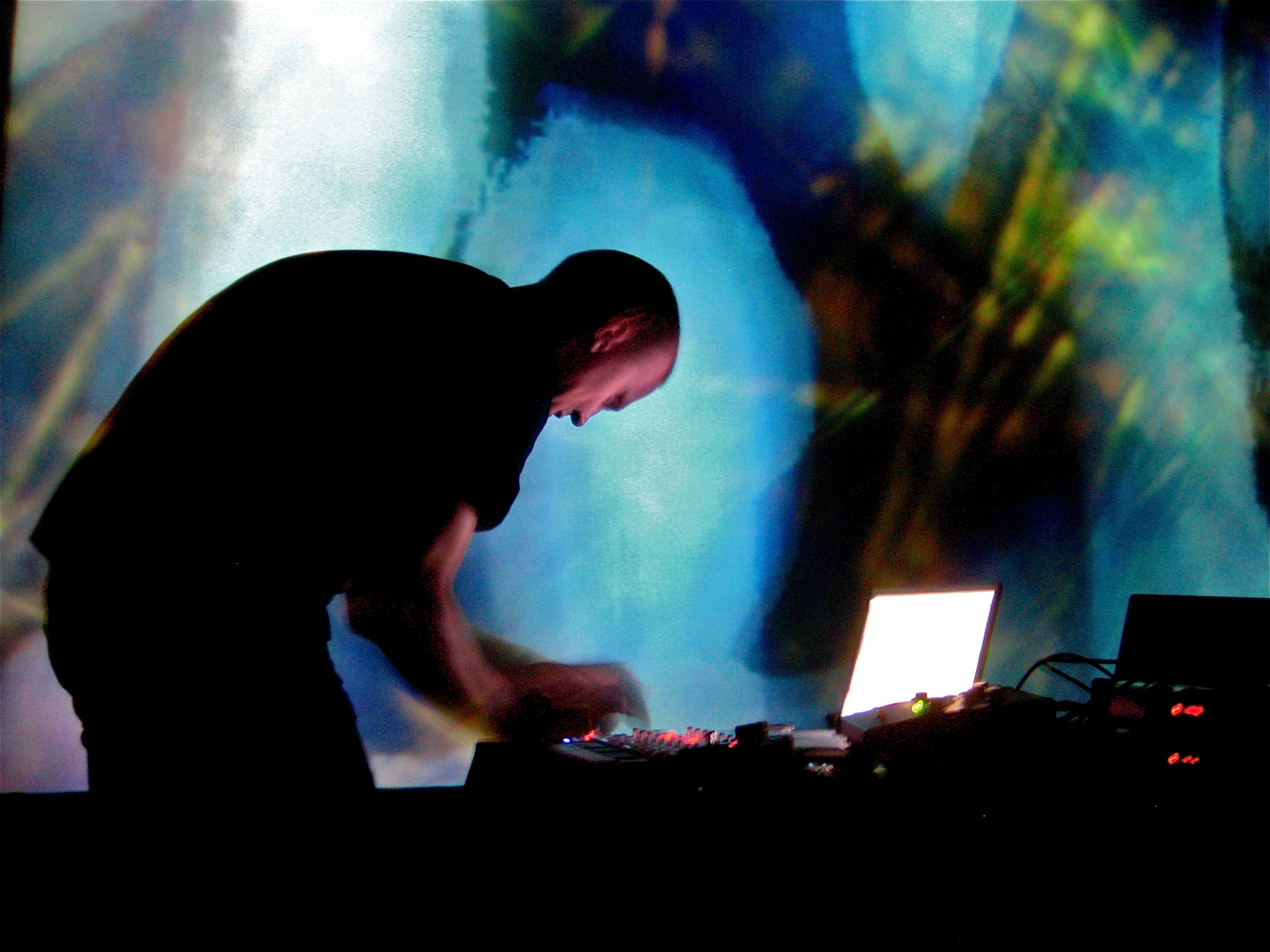 Tom Hall Live at TINA Festival, Newcastle, Australia